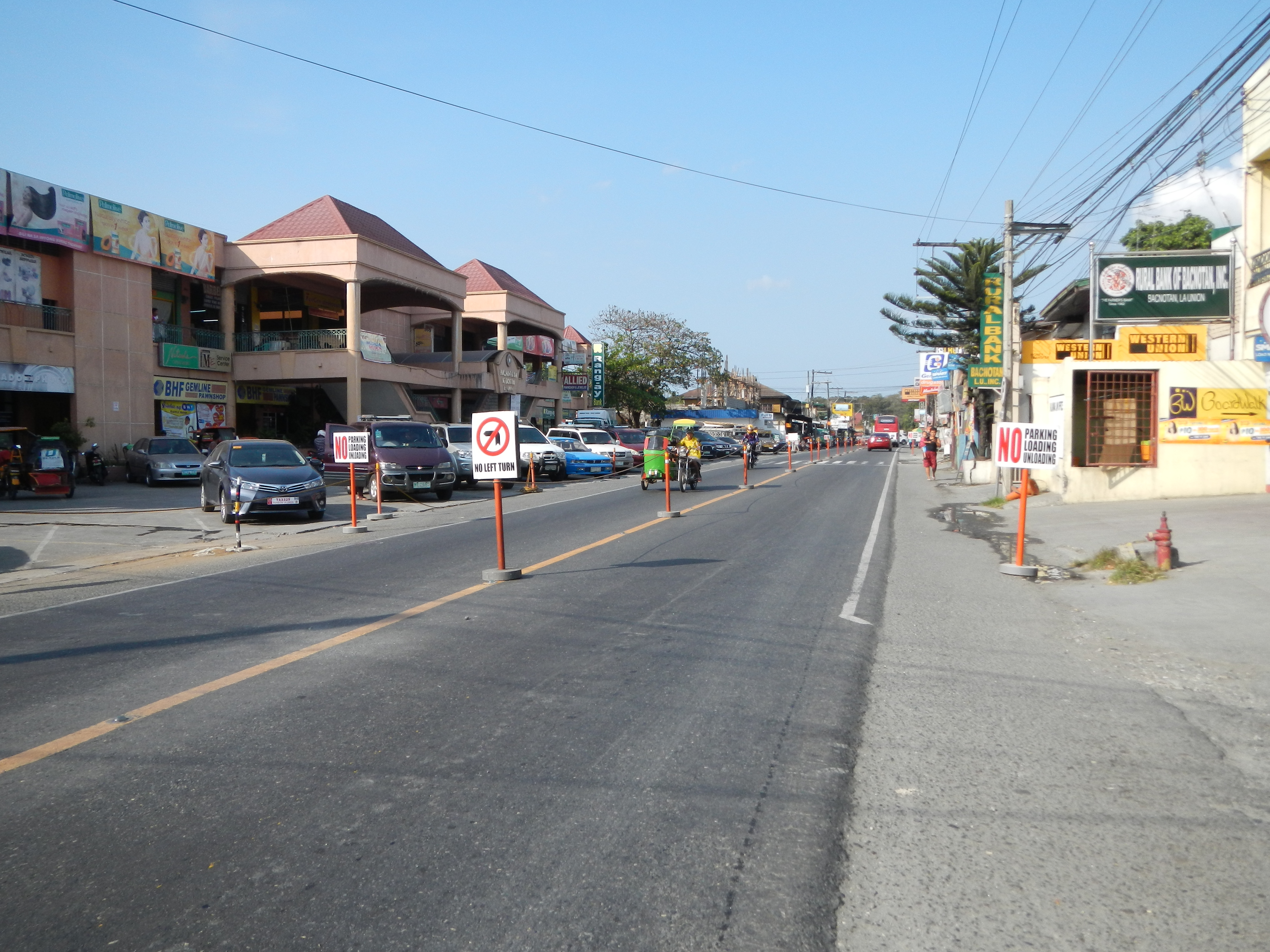 Pan-Philippine Highway Highway (AH26 AH26) in Bacnotan-Luna-Balaoan Road, KM 283+221-KM 307+876 - 1st LU, Engr. District Bacnotan, La Union Public Market, in Town Proper, along Pan-Philippine Highway Highway (AH26 AH26) and the booming commerce, establishments therein.